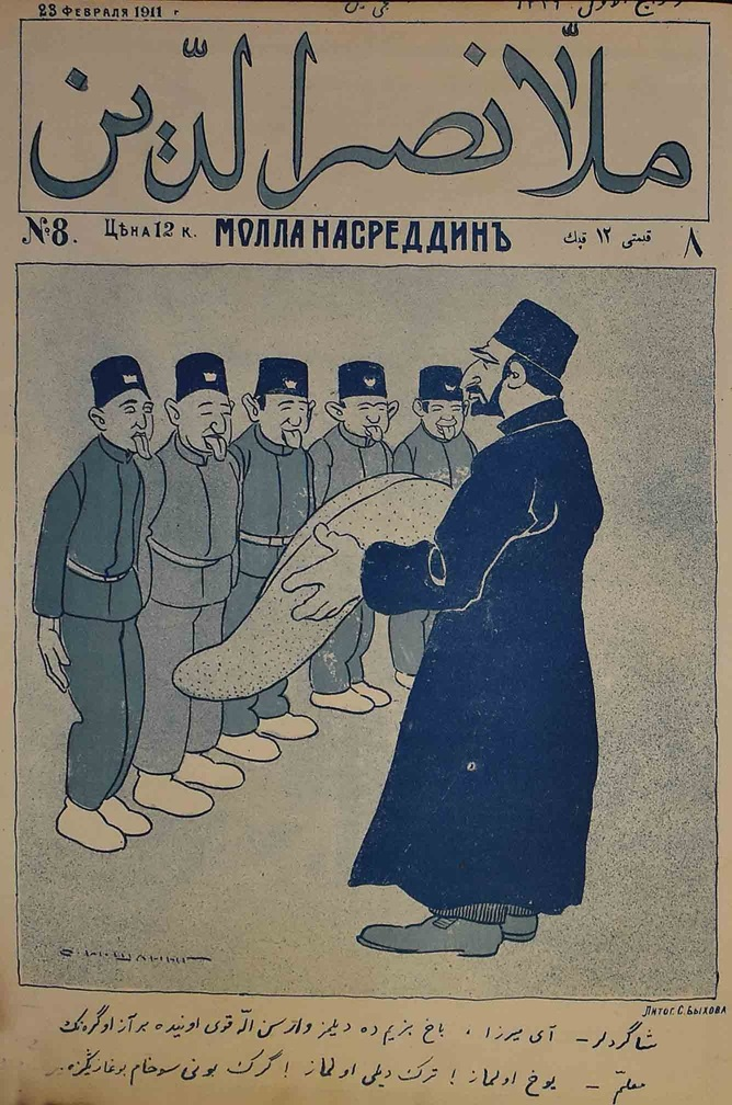 The Turkish language Molla Nasreddin № 8. Molla Nasreddin magazine (on Azeri), published between 1906-1931